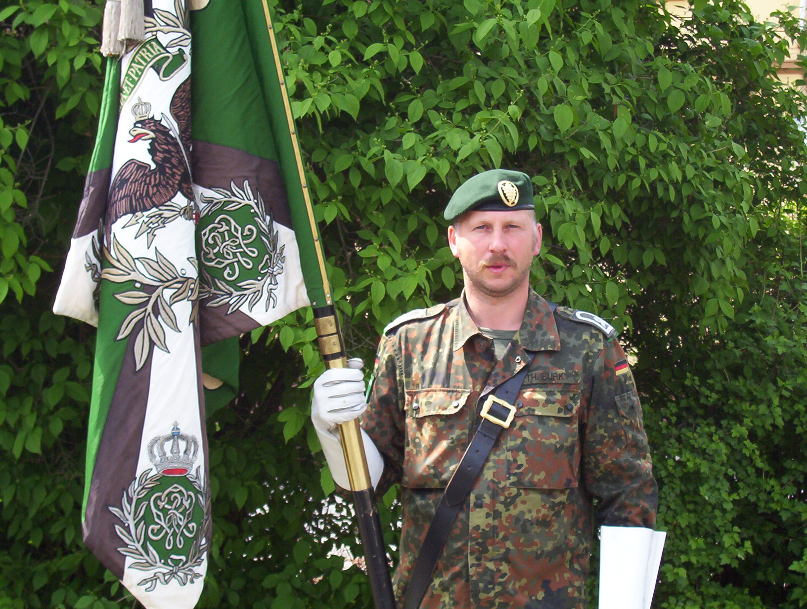 NCO of German Bundeswehr with the Colour of the Royal Prussian 8th Jäger Battalion (replica)